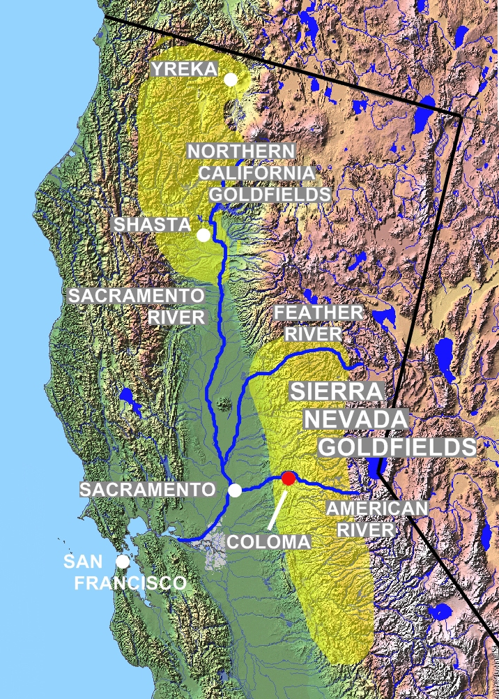 California Gold Rush relief map w